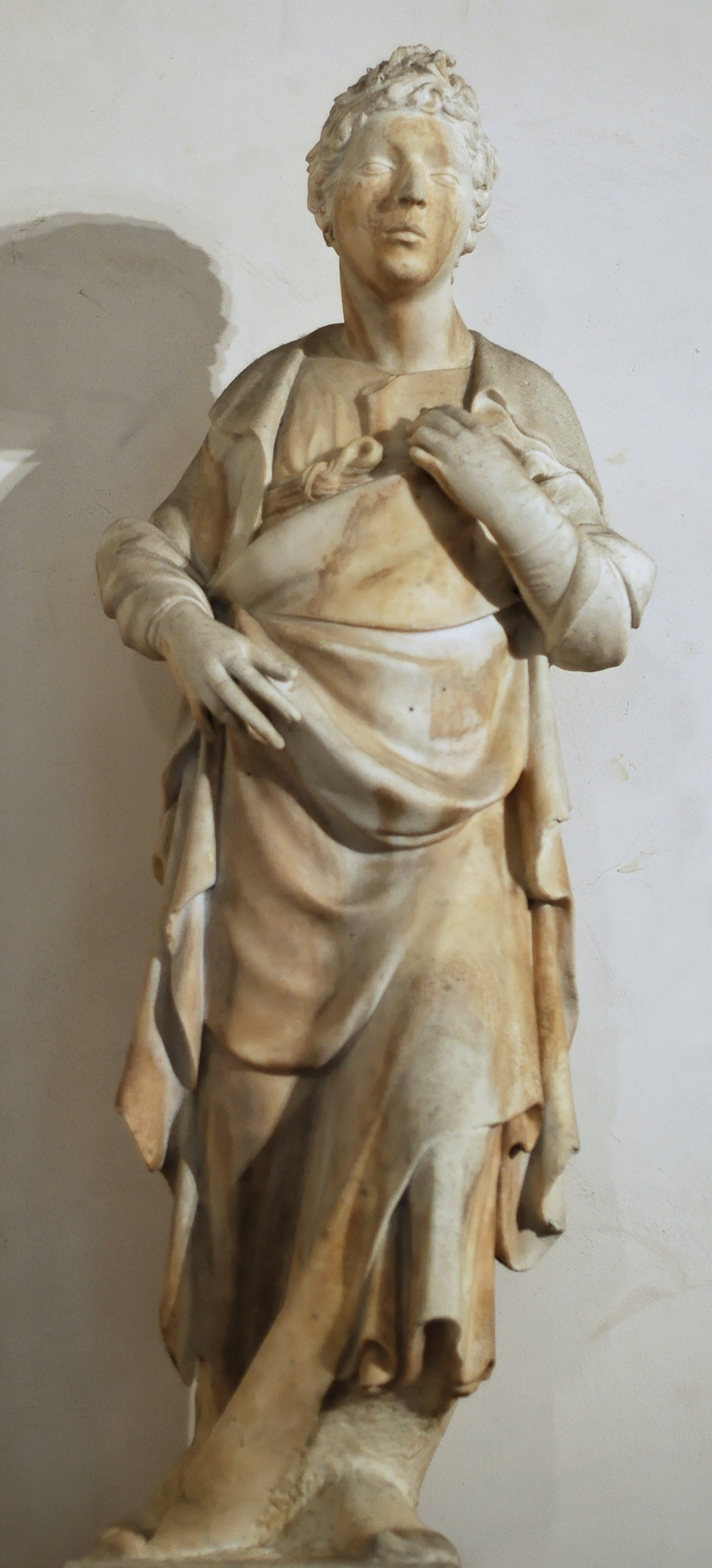 Young prophet, attributed to Donatello (1386–1466), ca. 1406-1409. From the left pinacle of the tympanum of the Porta della Mandorla in Florence, Italy. Marble, Museo dell'Opera del Duomo.